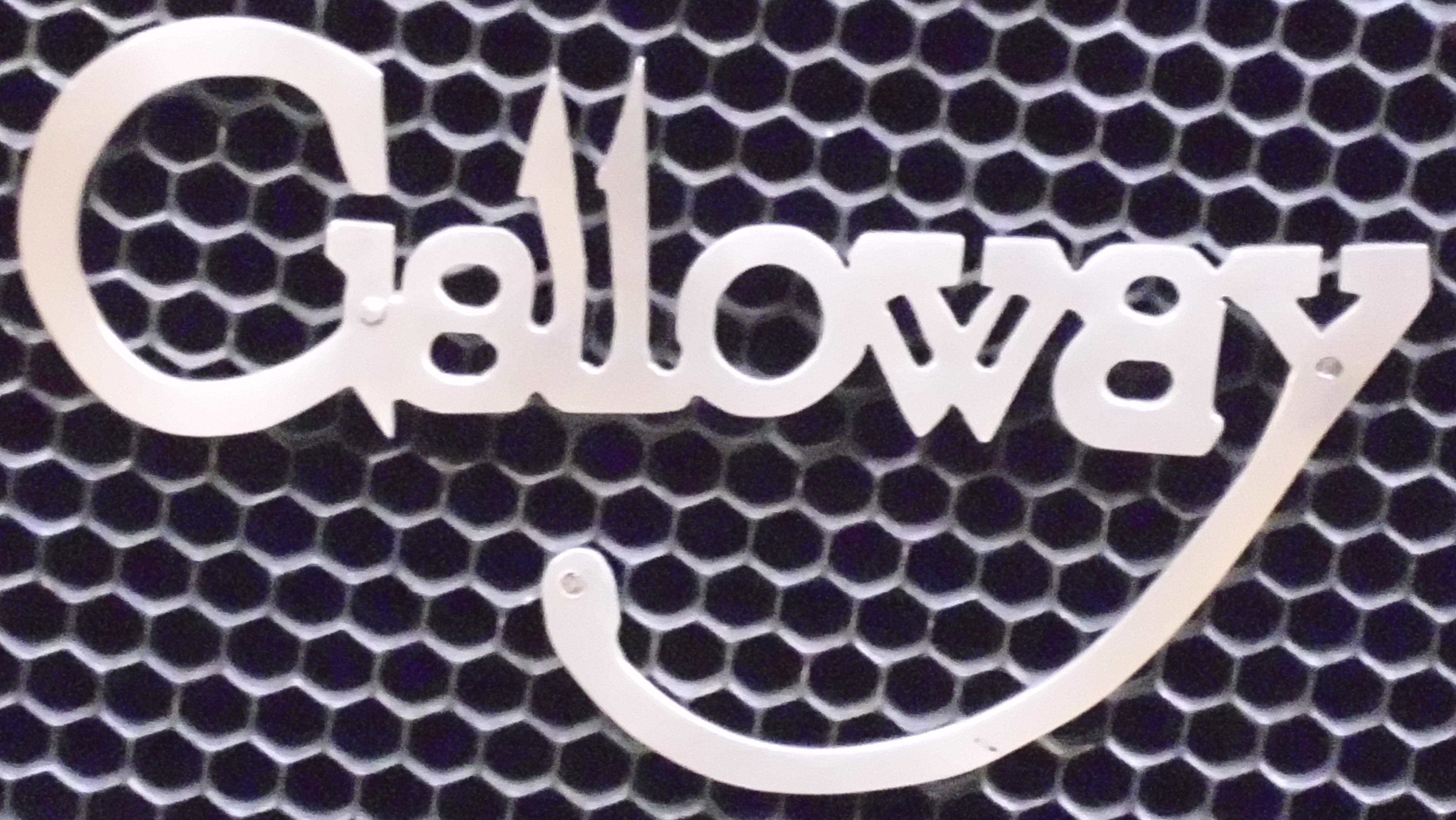 Emblem Galloway